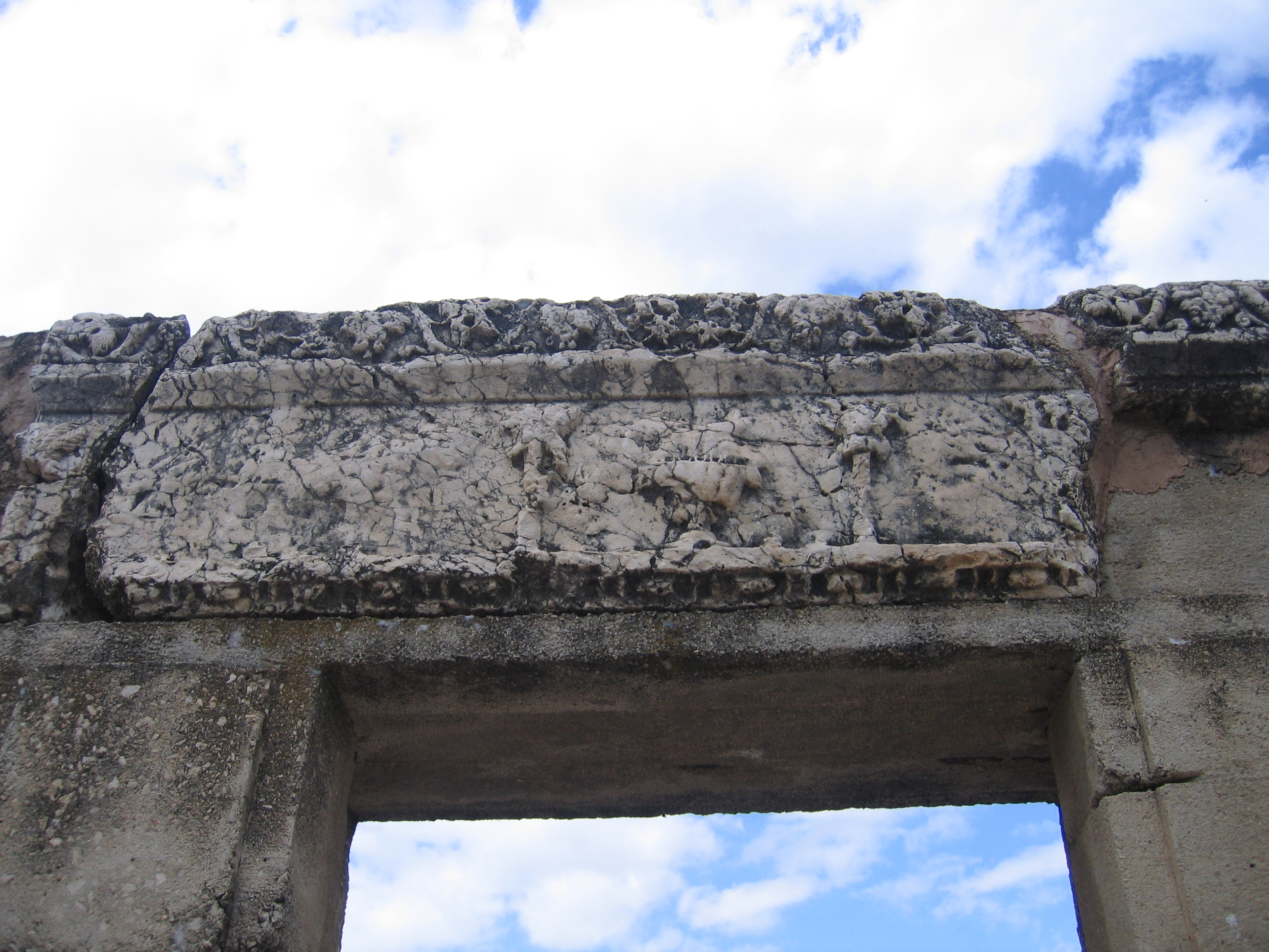 Capernaum Byzantine Synagogue